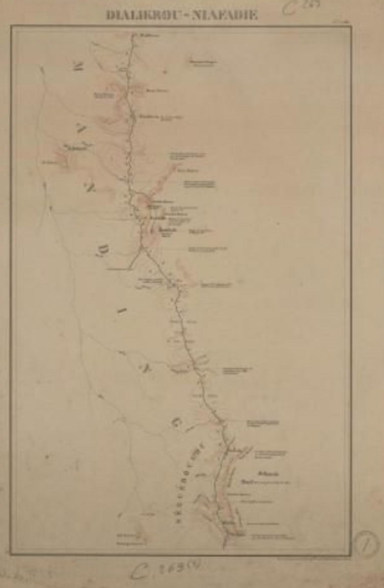 Niafadié